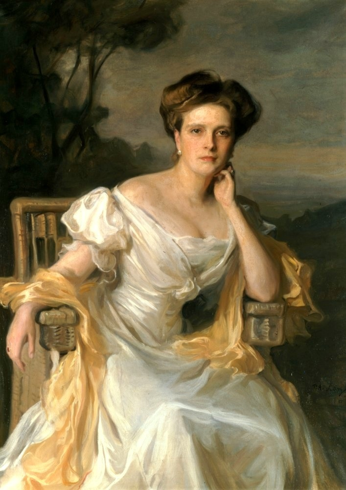 Prinzessin Victoria Alice Elisabeth Julie Marie von Battenberg aka Princess Alice of Battenberg, later Princess Andrew of Greece and Denmark